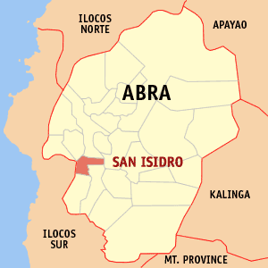 Map of Abra showing the location of San Isidro